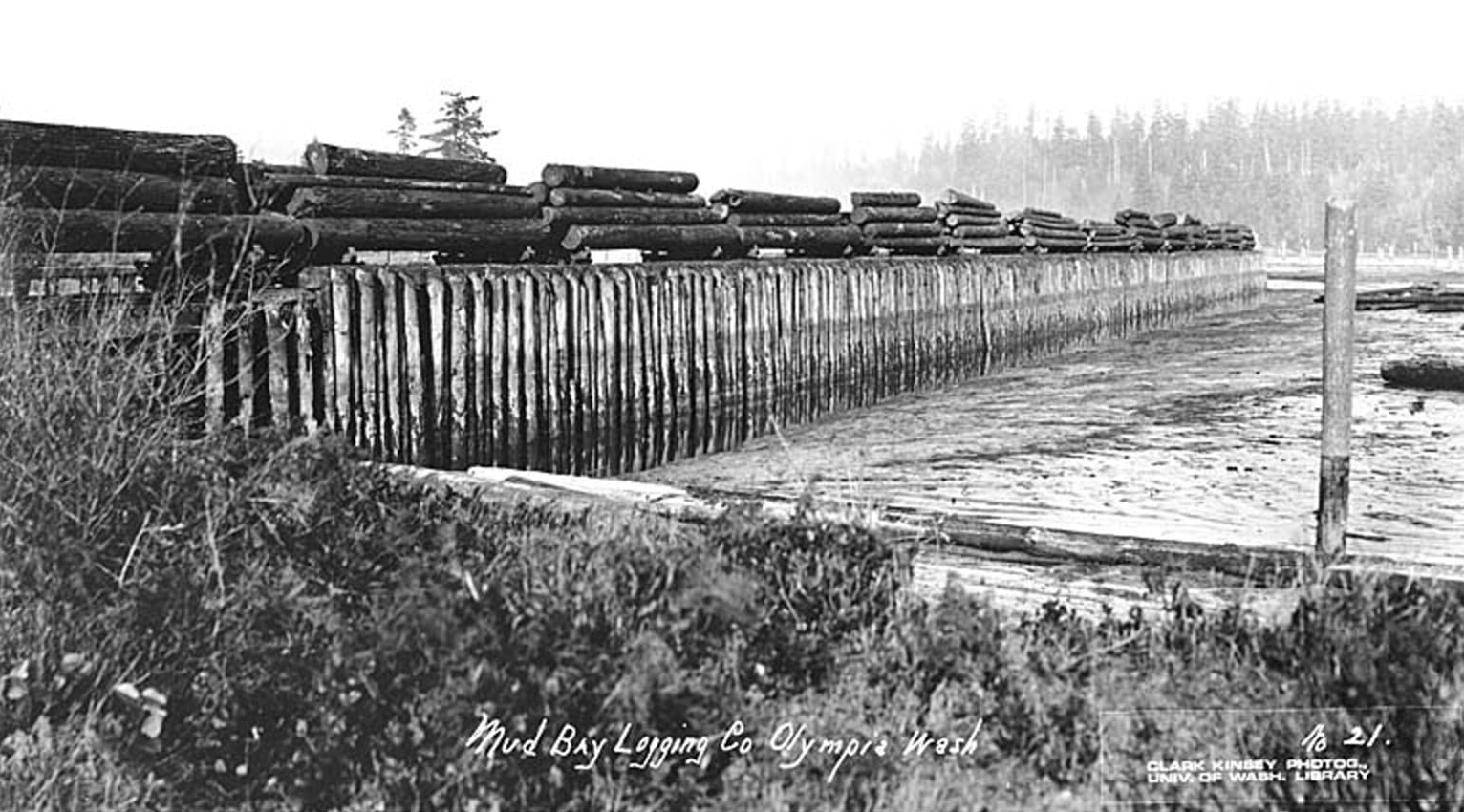 Log cars of the Mud Bay Logging Company at the Mud Bay, Thurston County, Washington log dump. Cropped from original photograph scanned at UW Libraries. Photographer was Clark Kinsey (1877-1956) of Snoqualmie and Seattle (biographic sketch). Photograph undated, probably from 1930s; Mud Bay Logging Company went out of business in 1941 and Kinsey stopped taking logging photographs around 1945.